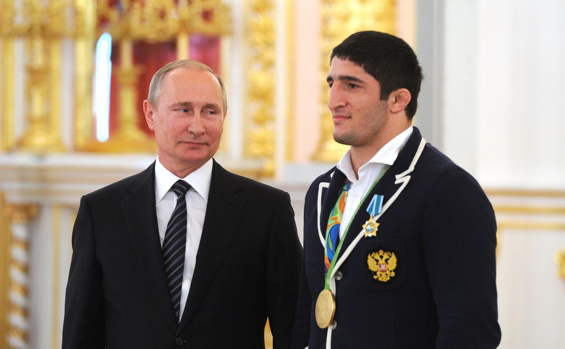 Vladimir Putin presented state awards to the Russian athletes who won gold medals at the 2016 Olympic Games in Rio de Janeiro (Brazil).